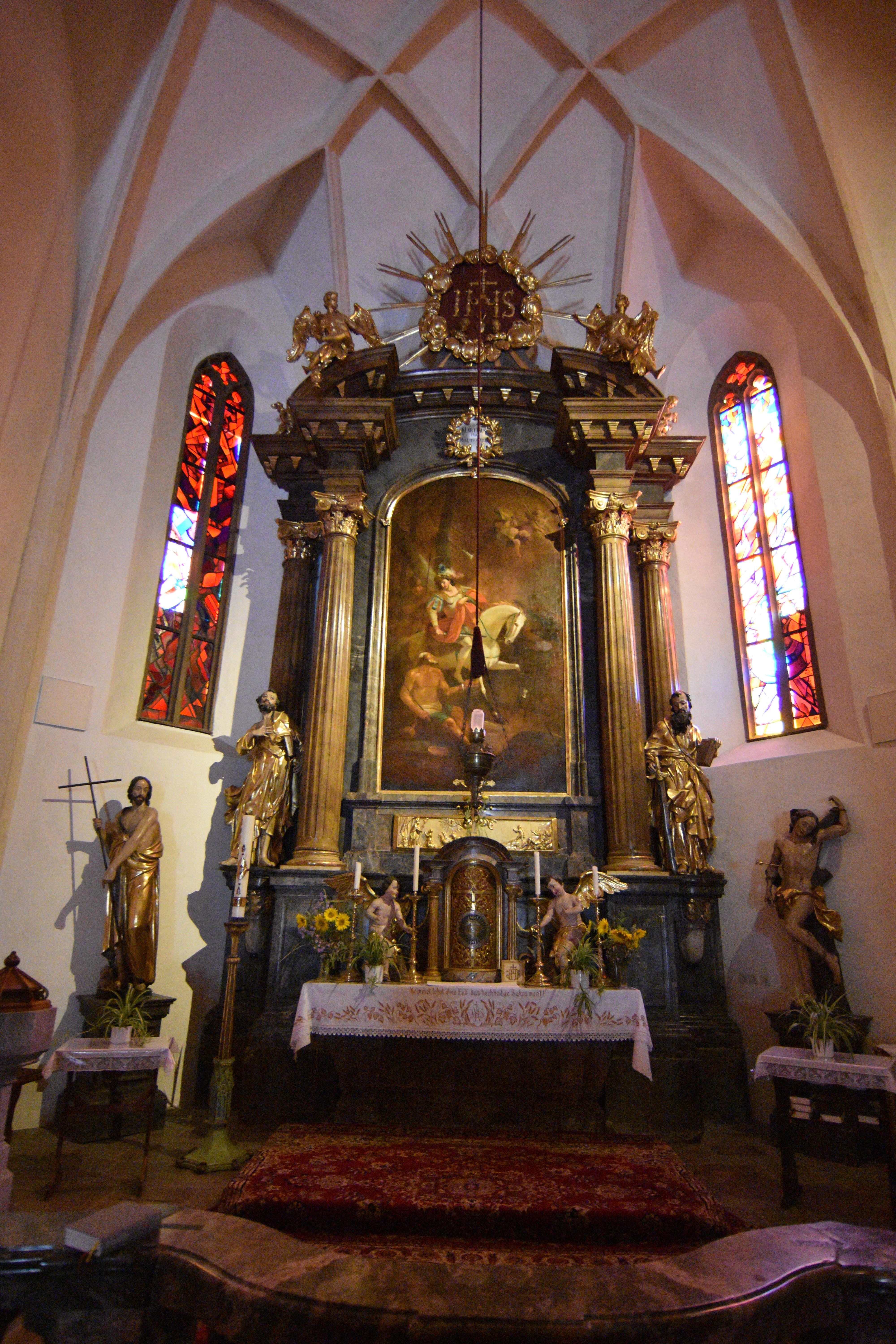 Pfarrkirche Riegersburg - Interior